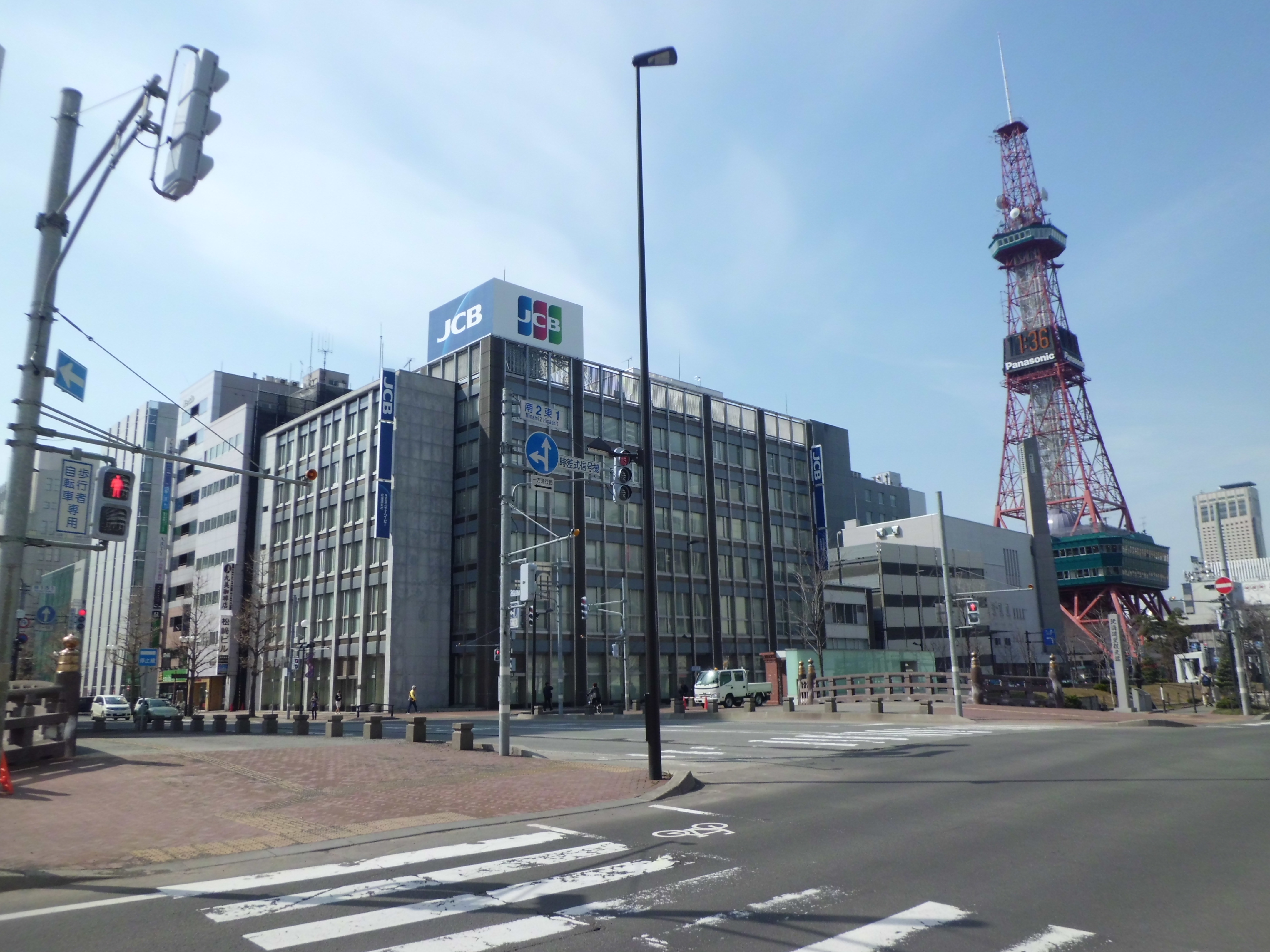 Sosei Bridge on Sosei River. Looking the downstream direction from the eastern bank.